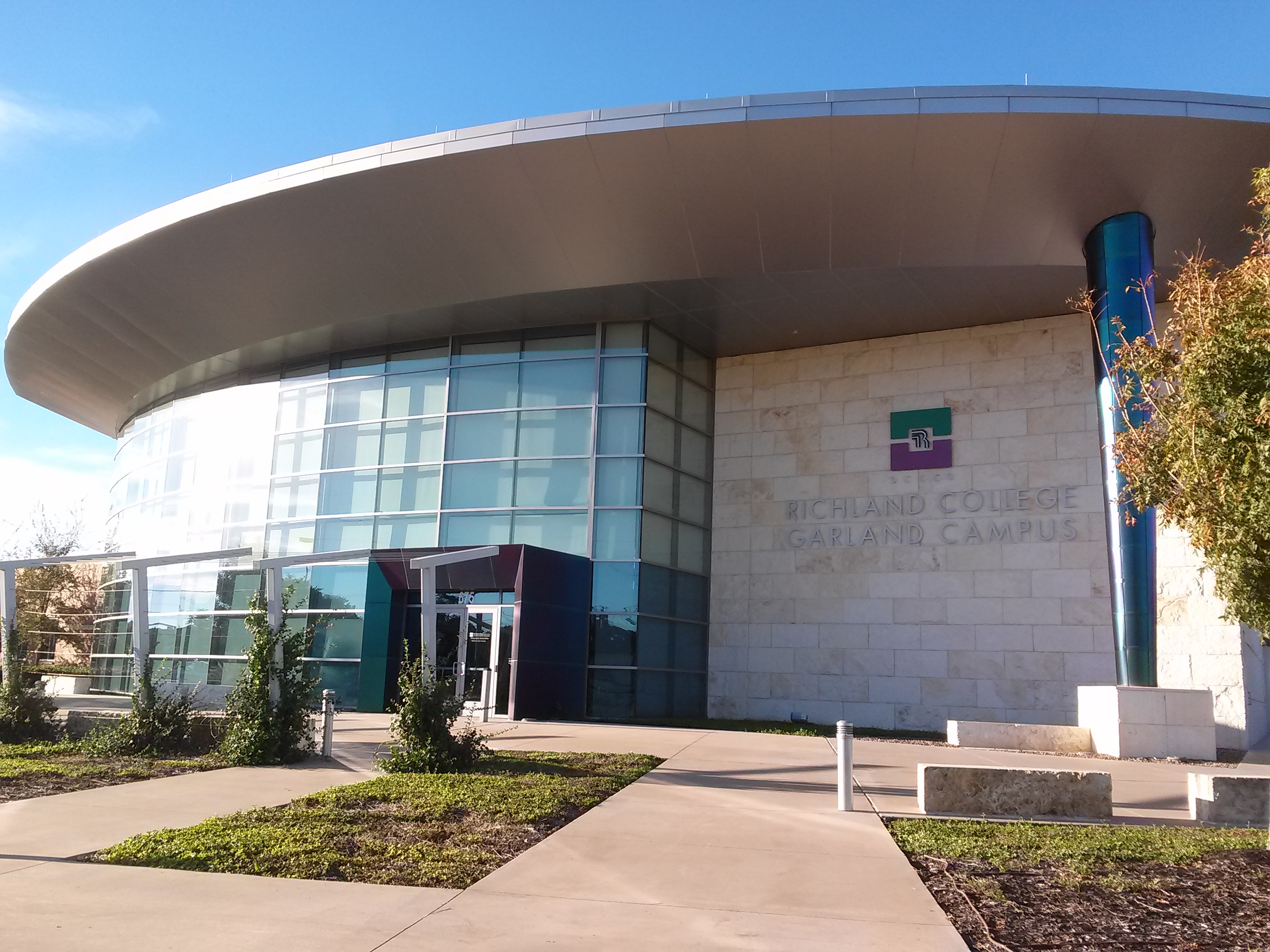 Richland College Garland Campus